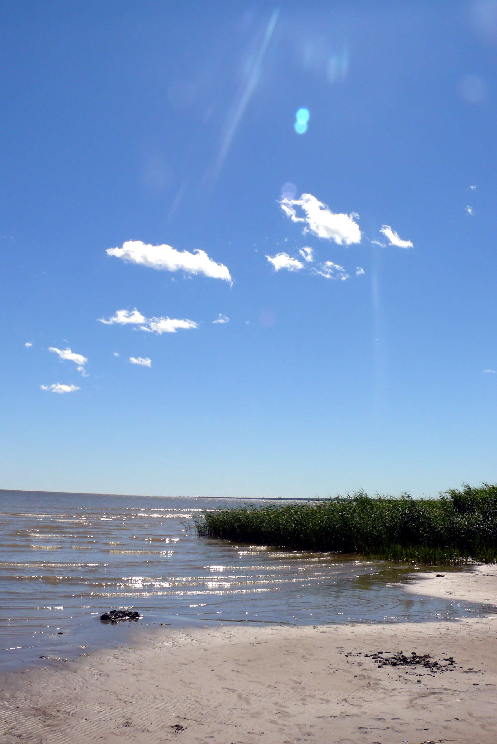 Valgeranna beach at Pärnu Bay.